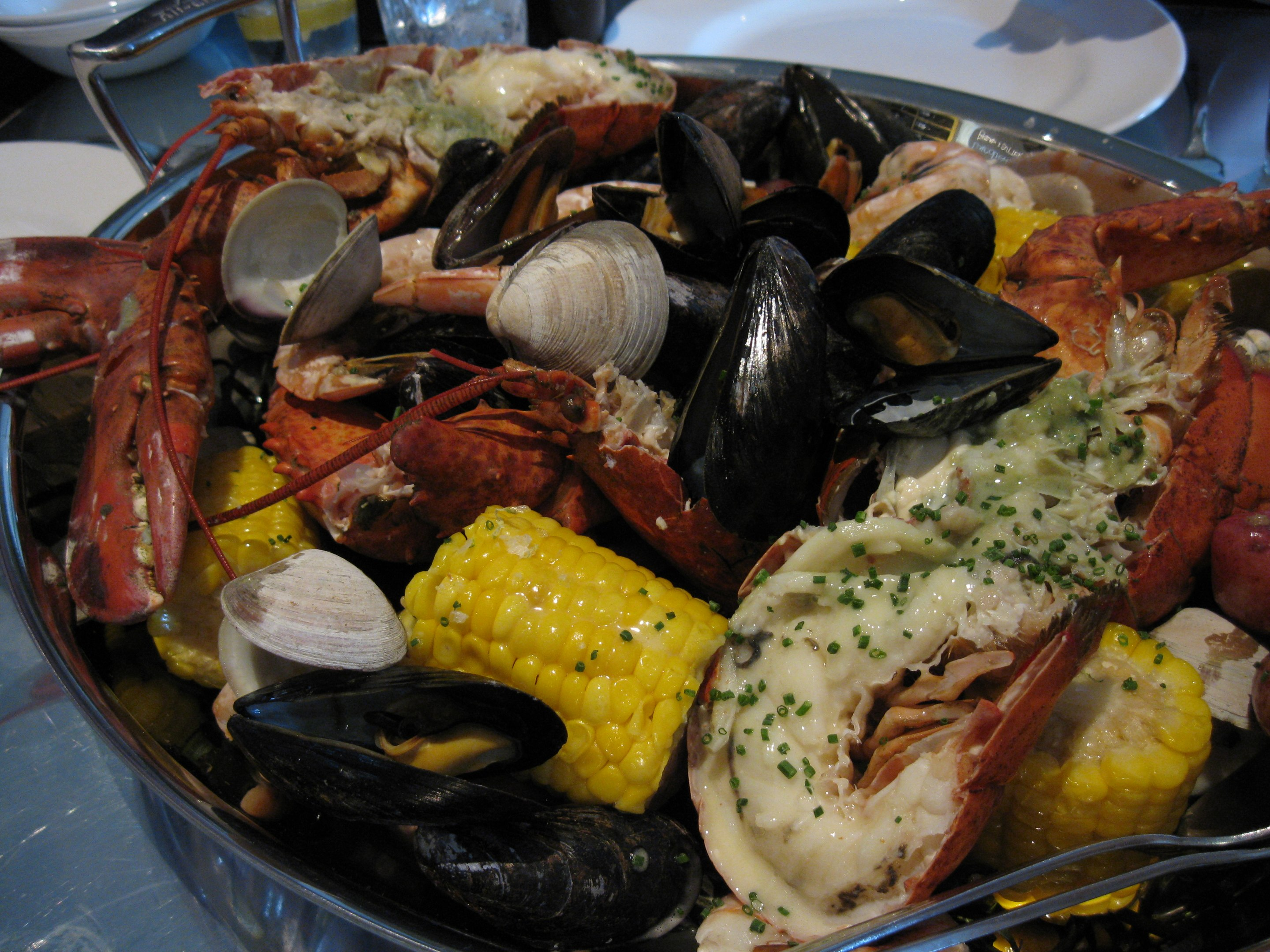 New England clam bake - steamed lobsters, clams, mussels, corn, etc.